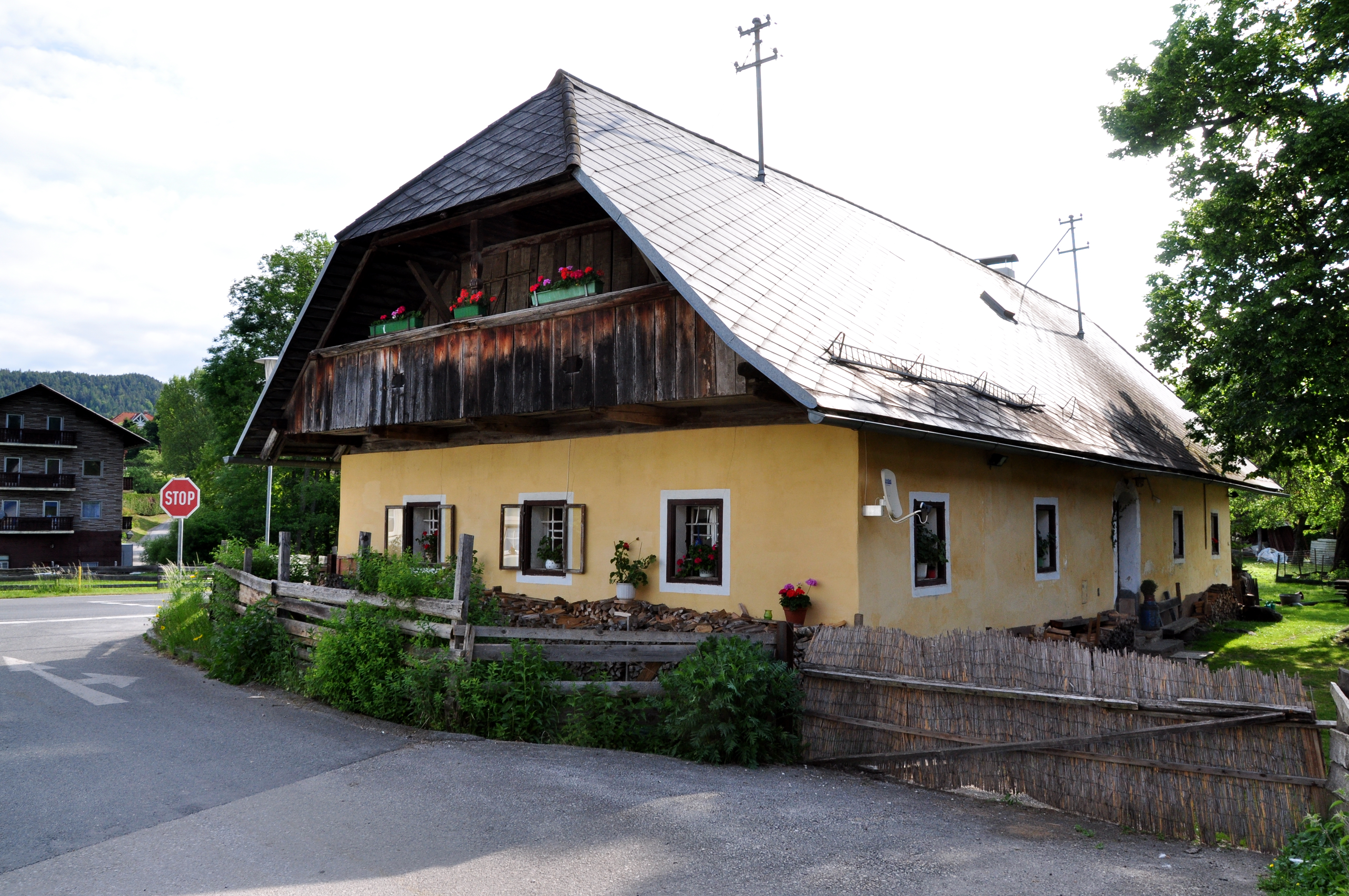 Hoeflein #1, farmstead "vulgo KUSCHKER" in the municipality Keutschach am See, district Klagenfurt Land, Carinthia, Austria